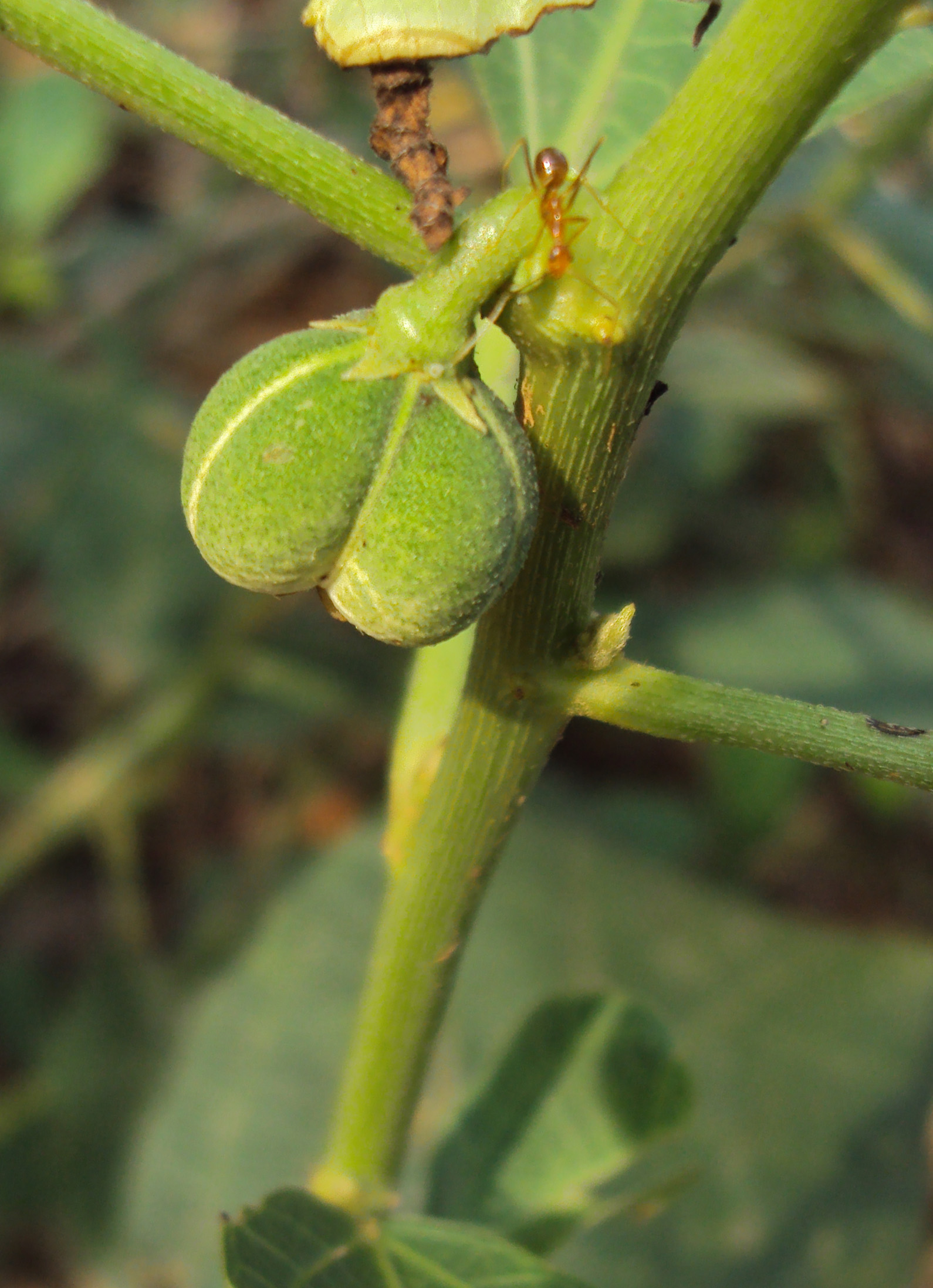 Baliospermum solanifolium